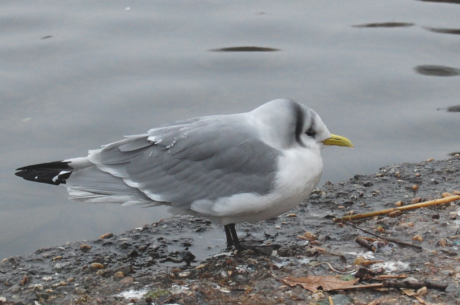 Rissa tridactyla, adult, non-breeding plumage